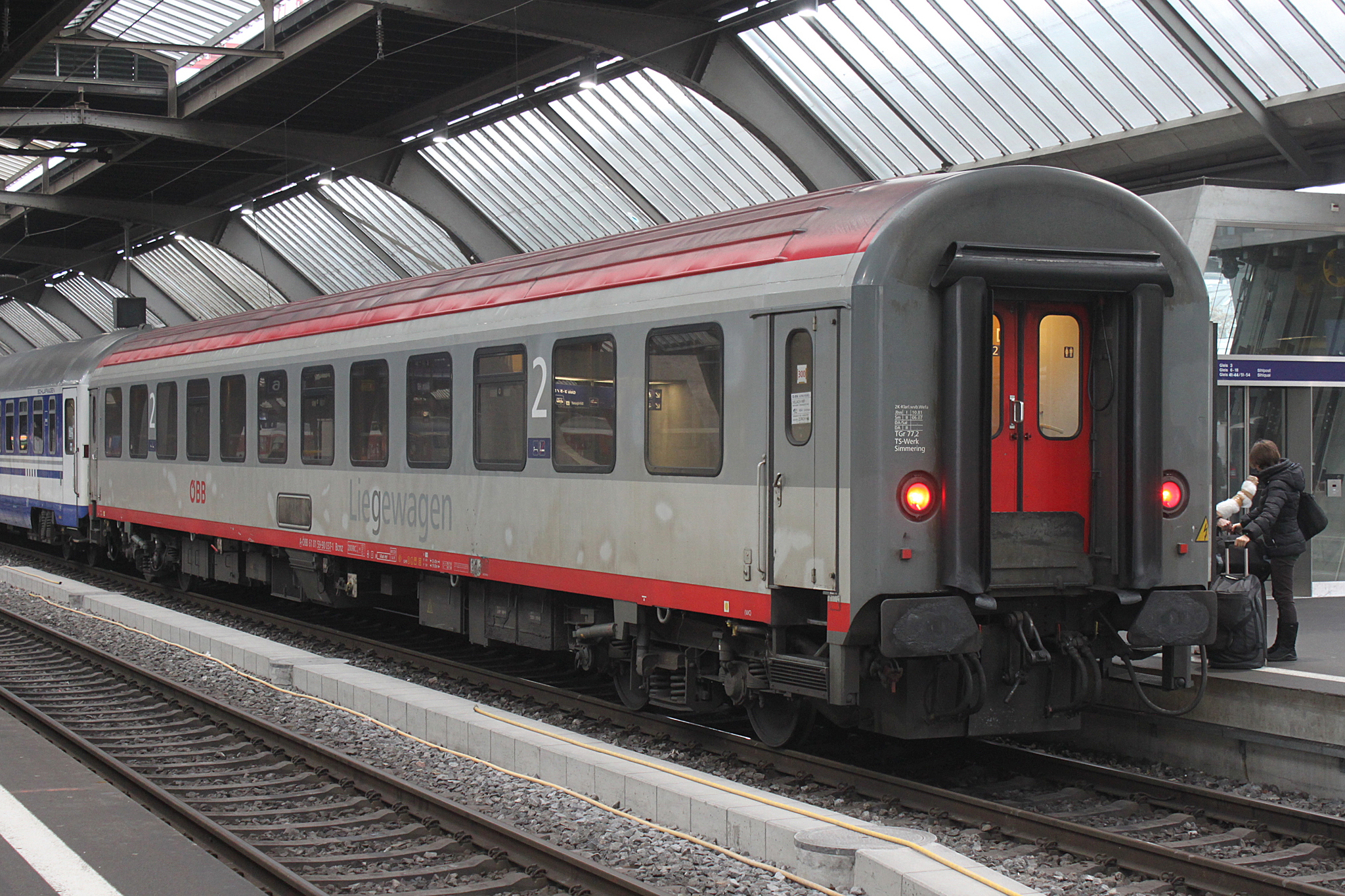 ÖBB Bcmz 61 81 59-90 037-1 at Zürich HB train station in the consist of EuroNight 464 "Zürichsee" from Graz Hbf to Zürich HB as through coach from Villach Hbf.